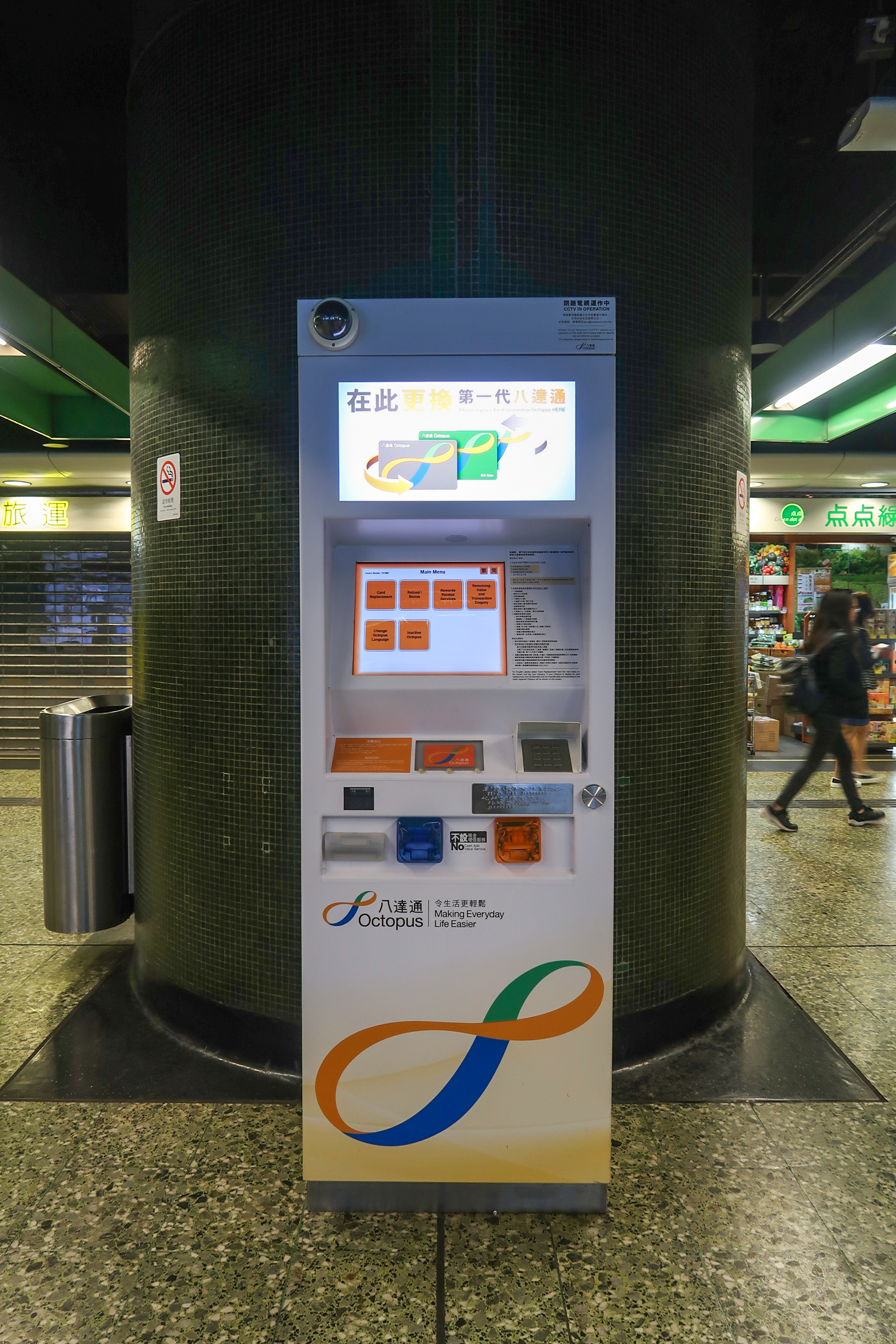 MTR Station Octopus Card Exchange machine in Fortess Hill Station